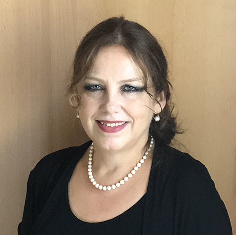 Foto PhDr. Vladimíry Vítové, Ph.D.